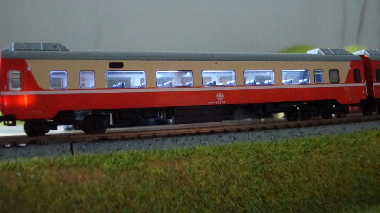 FPK10500 N-SIZE MODEL OF Touch-Rail Models CO.,Ltd